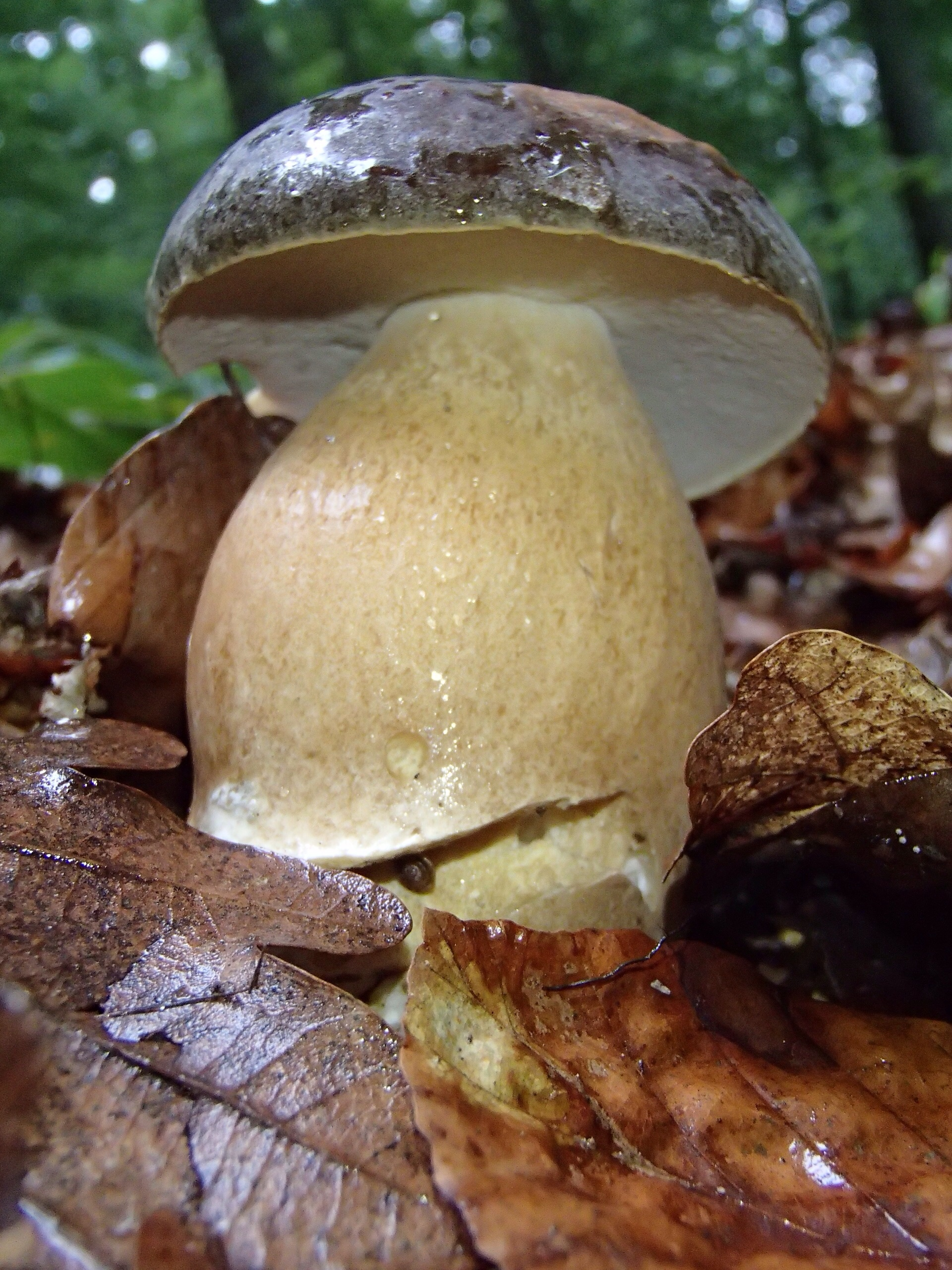 Fruit body of Boletus aereus Bull.; photographed in Schönbuch, Baden-Württemberg, Germany.